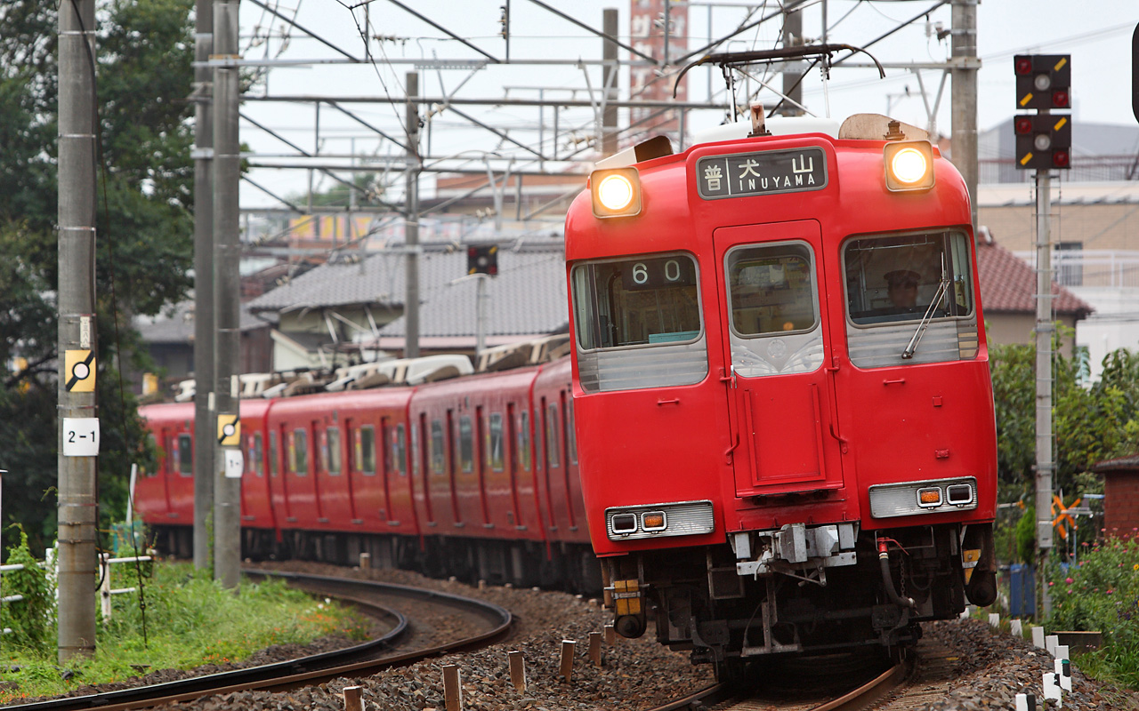 Meitetsu 100 series EMU (between Kōnan Stn. and Kashiwamori Stn.)